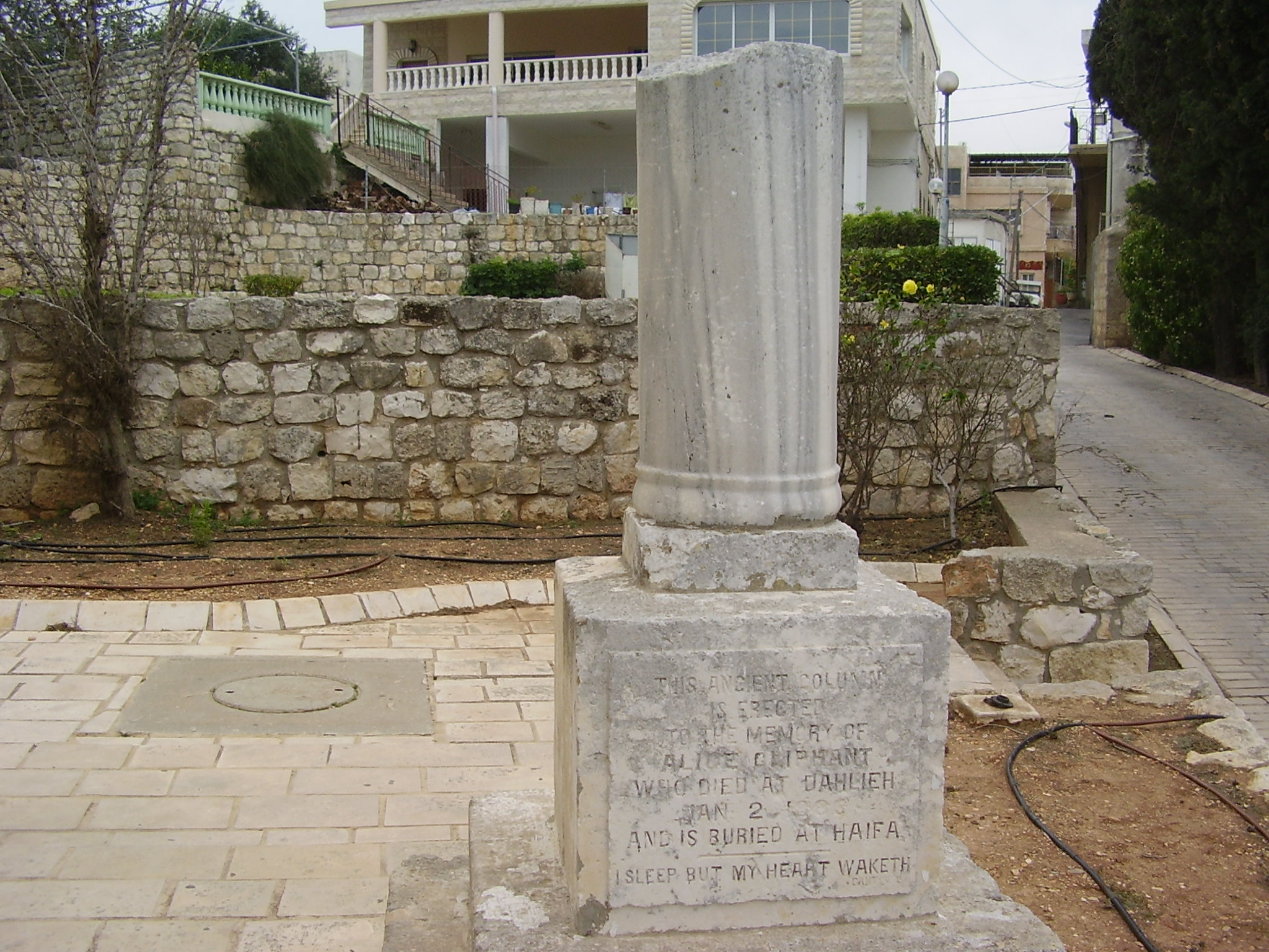 memorial to alice oliphant in dalit el carmel